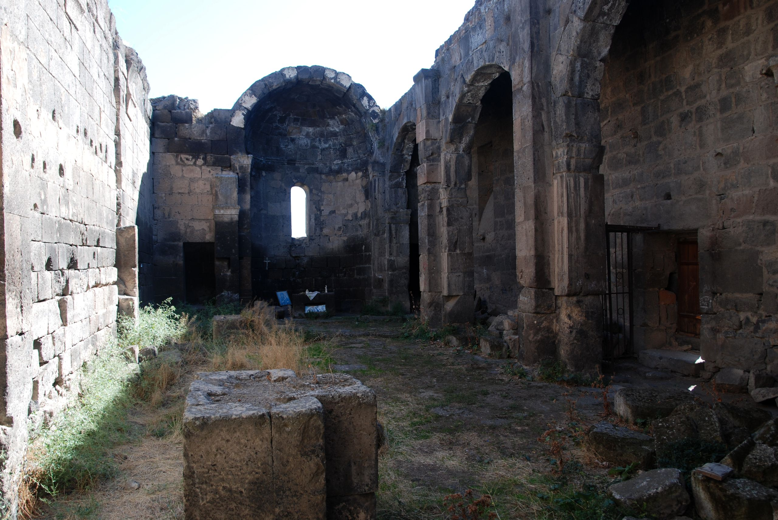 Tsiranavor church in Ashtarak